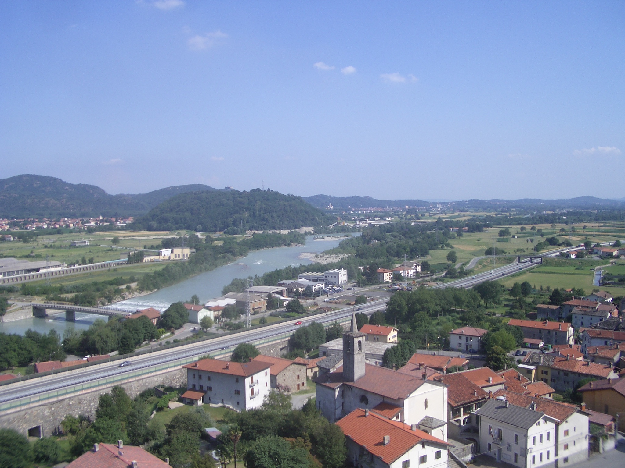 Quassolo, landscape seen from the castle